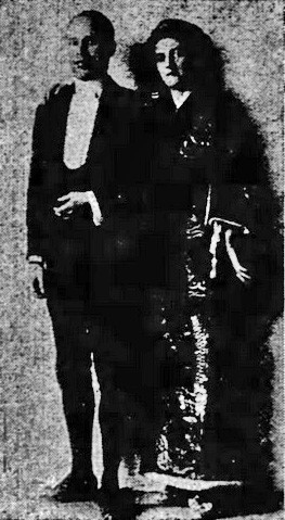 This image shows Frank Eliason and his wife Kathleen, who performed in the US as The Dantes in the early 1900s. Eliason was the brother of the magician, Oscar Eliason, who called himself Dante the Great before his accidental death in Australia in 1899.